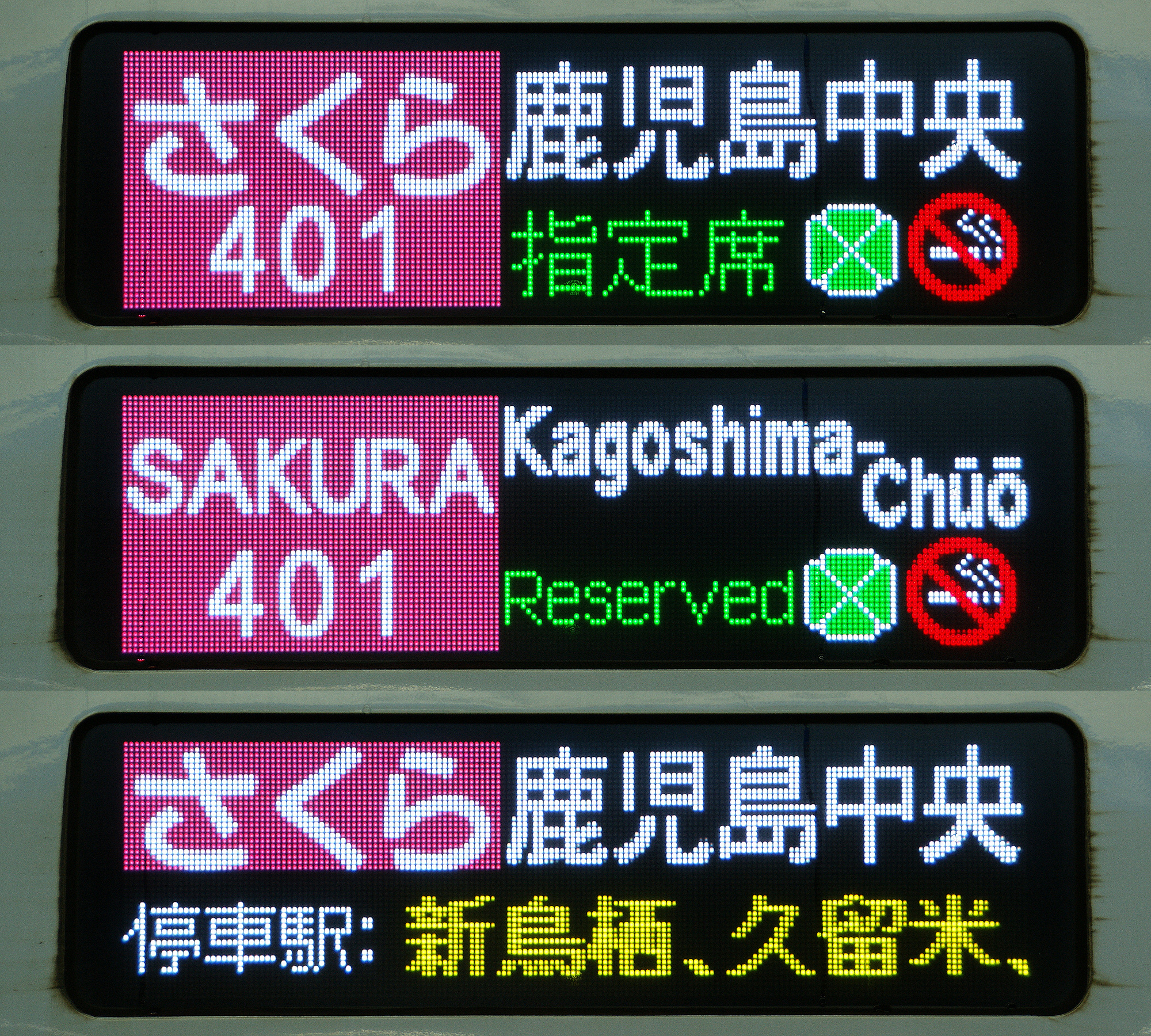 Destination Sign of West Japan Railway, Series N700-7000